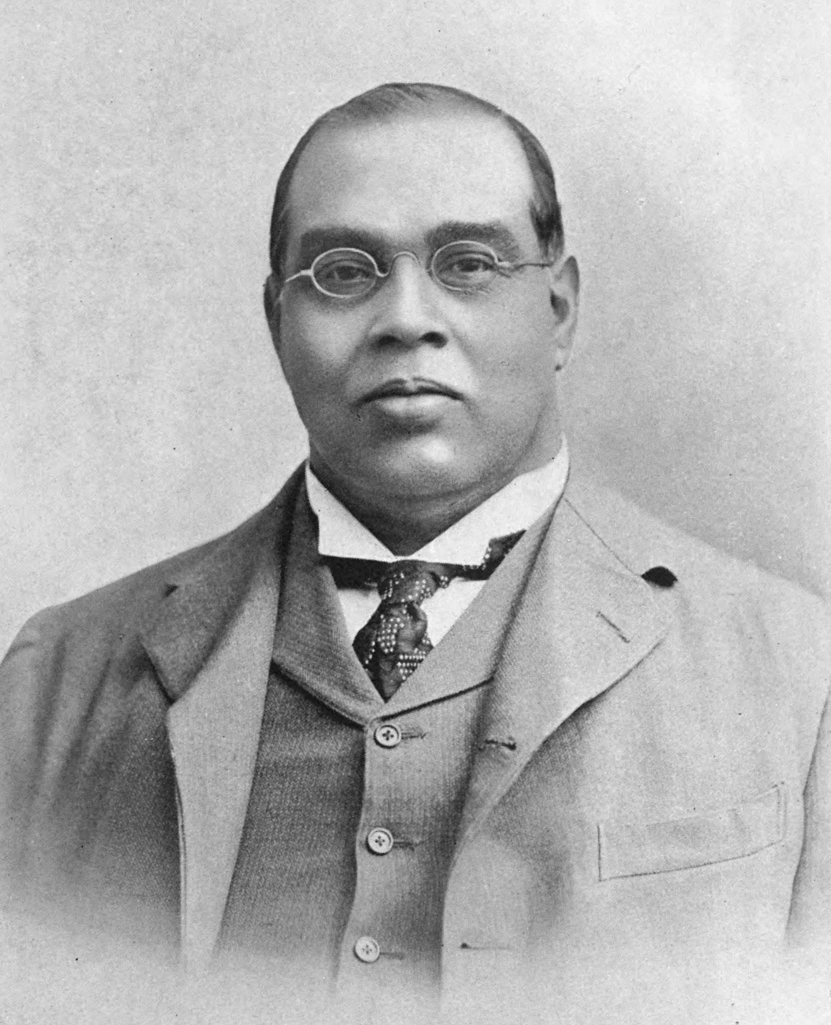 Romesh Chunder Dutt from Life and Work of Romesh Chunder Dutt, C.I.E.